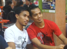 Baddrol Bakhtiar (Left) with Mohd Norhafiz Zamani Misbah (Right) at the Jamal Mohammad Restaurant.